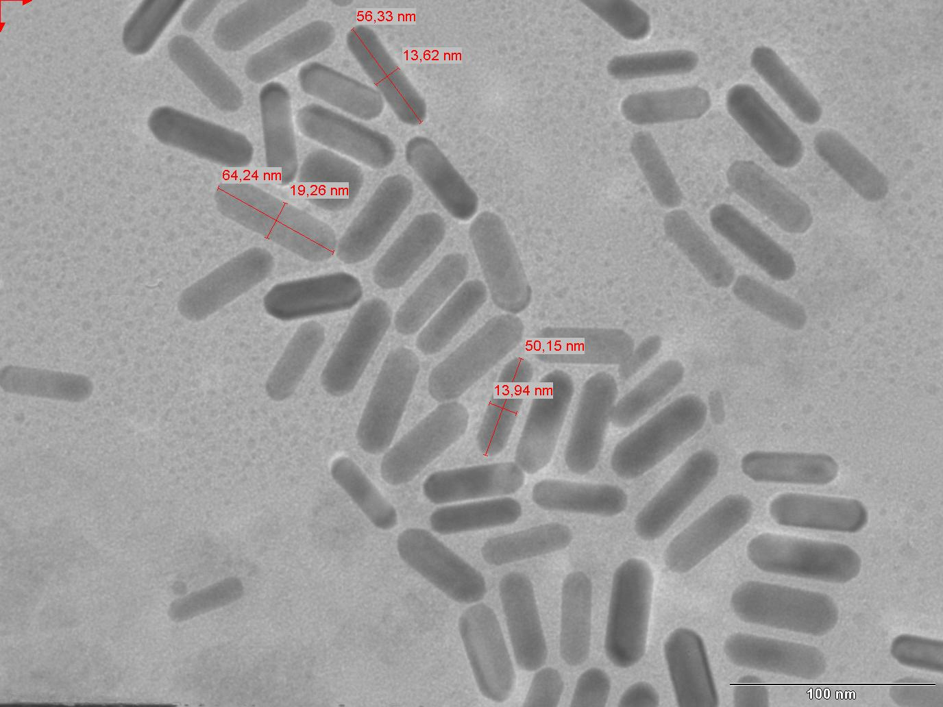 electron microscope picture of gold nanorods